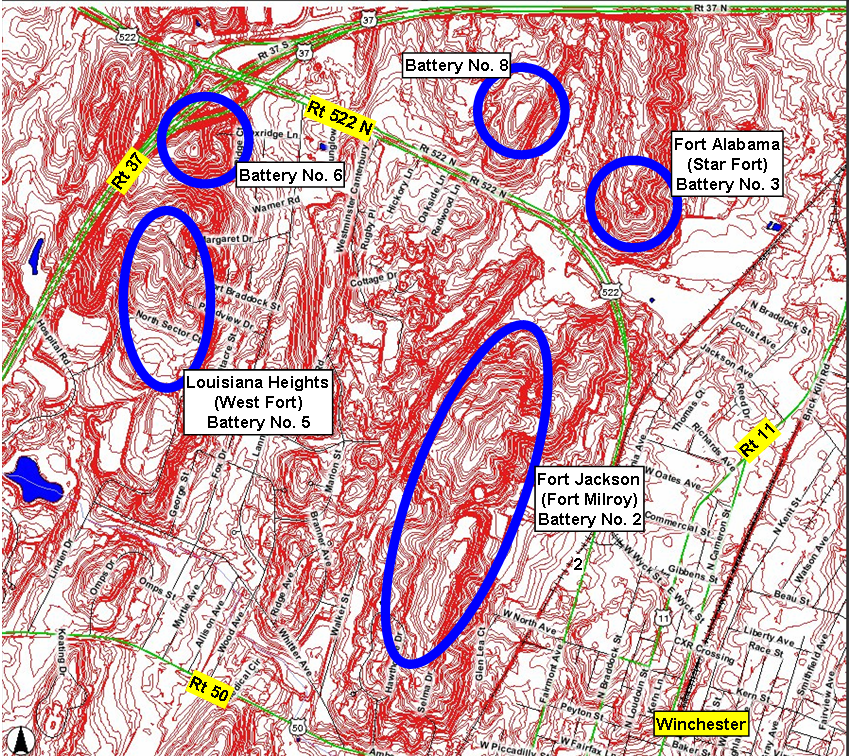 author:anonymous source:self-made powerpoint graphic